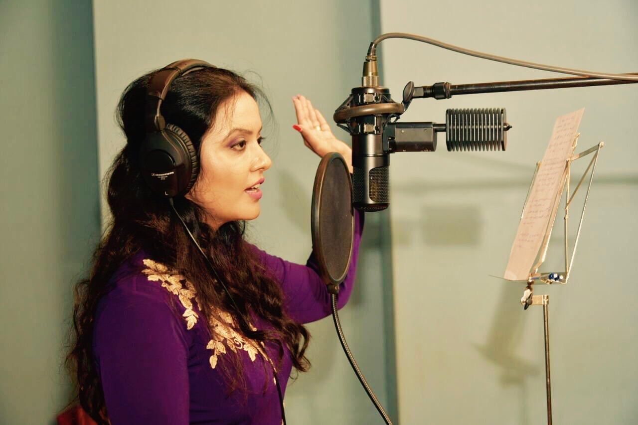 Amruta Fadnavis while song recording